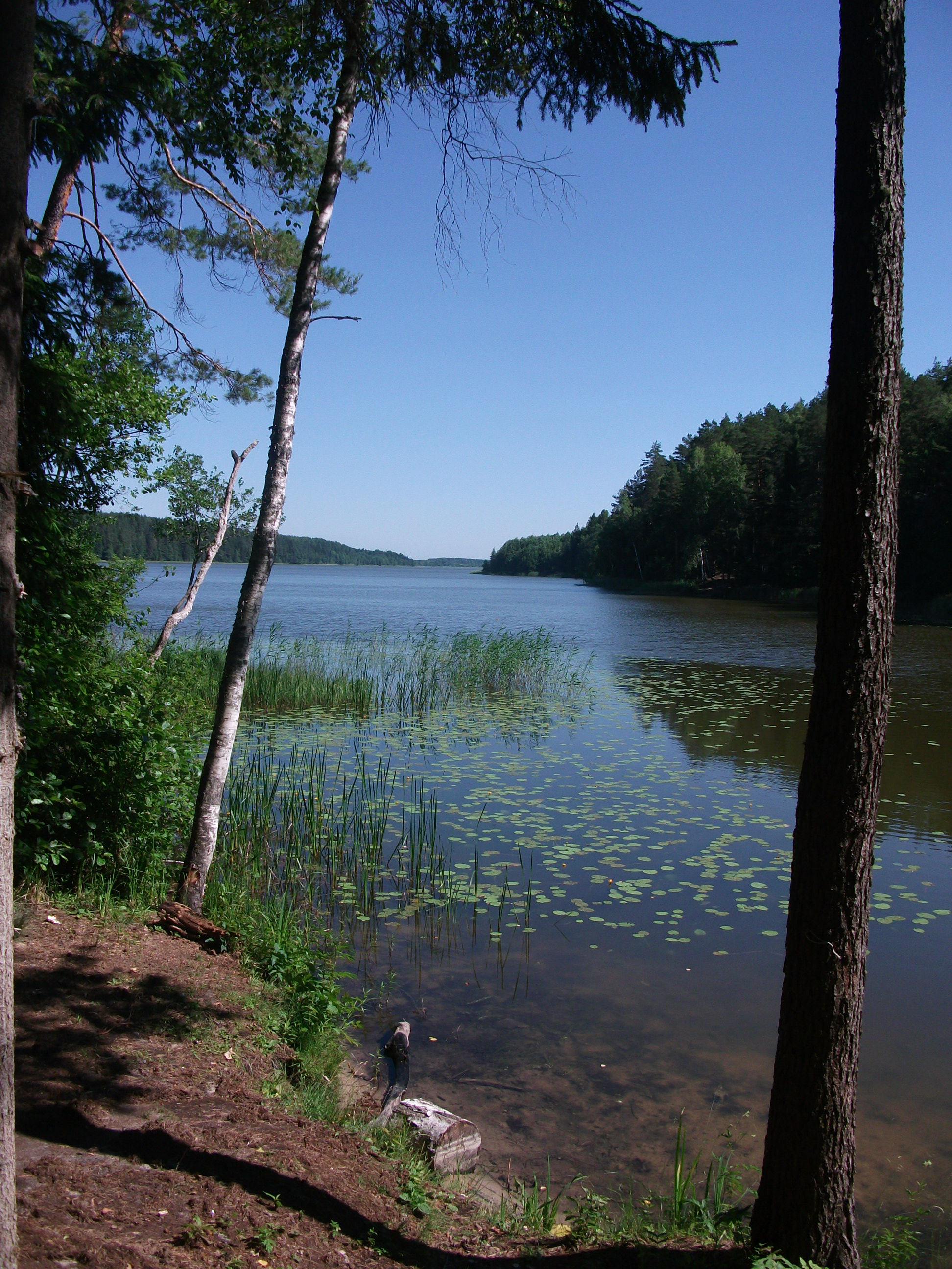 Vechalle Lake, Ušačy District, Belarus